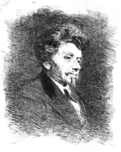 Portrait of painter Pantaleon Shyndler by Ilya Repin